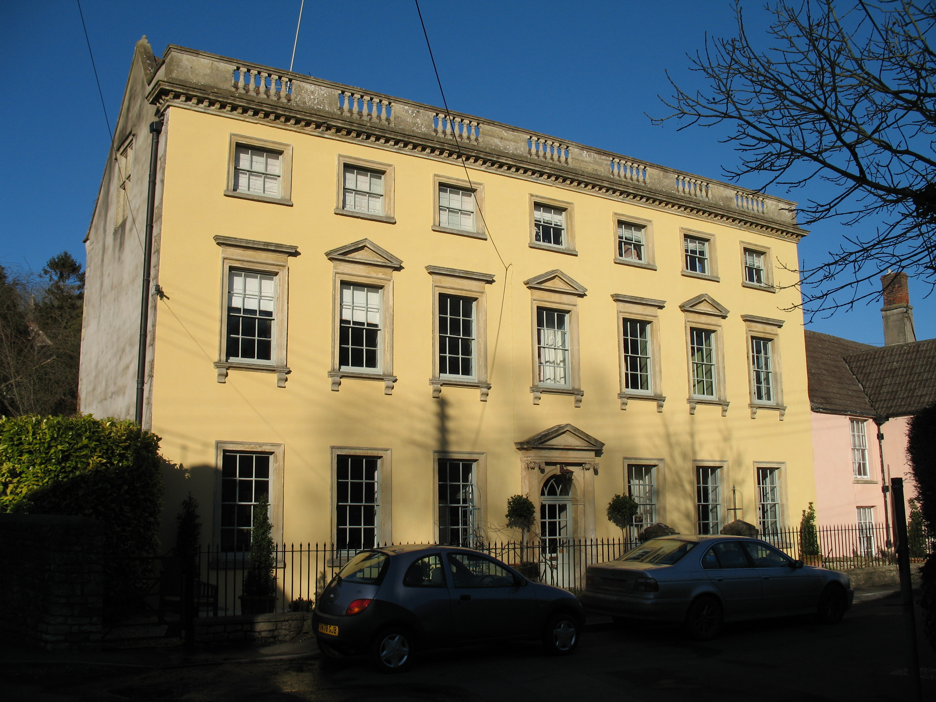 Old Bowlish House, Bowlish, Shepton Mallet, England.